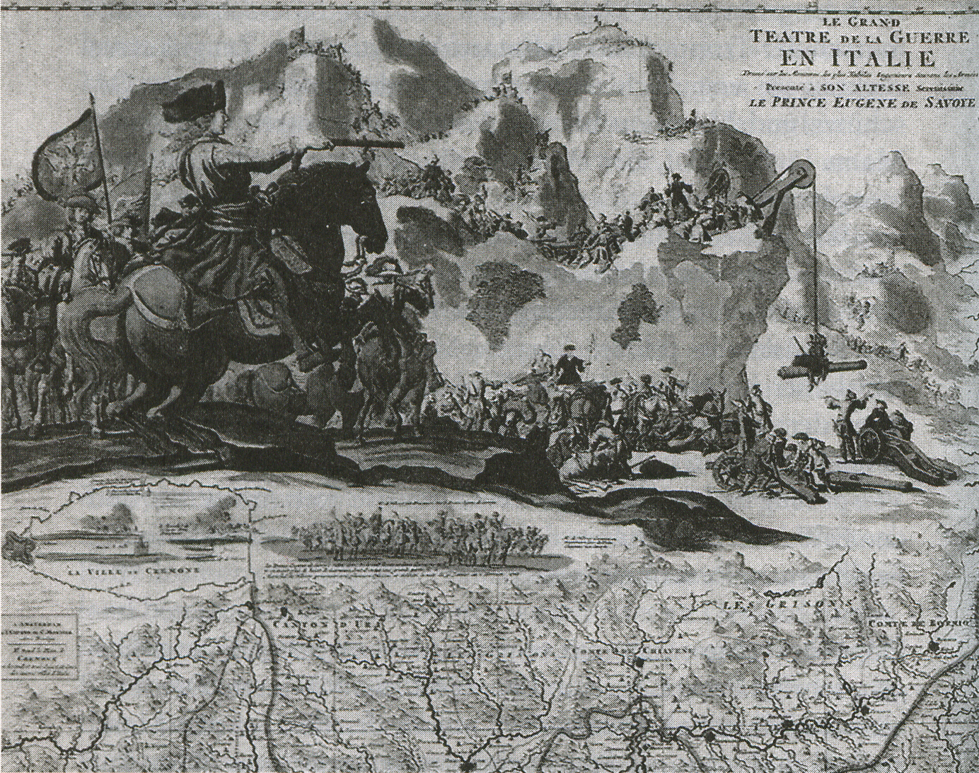 Picture shows the crossing of the Alps in 1701 by Austrian troops